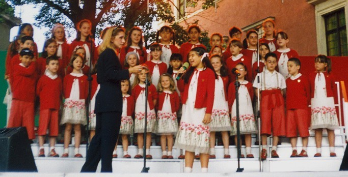 Piccolo Coro Mariele Ventre dell'Antoniano - trials before the concert in Warsaw (Poland), in late June, 2001. The picture was taken by myself !